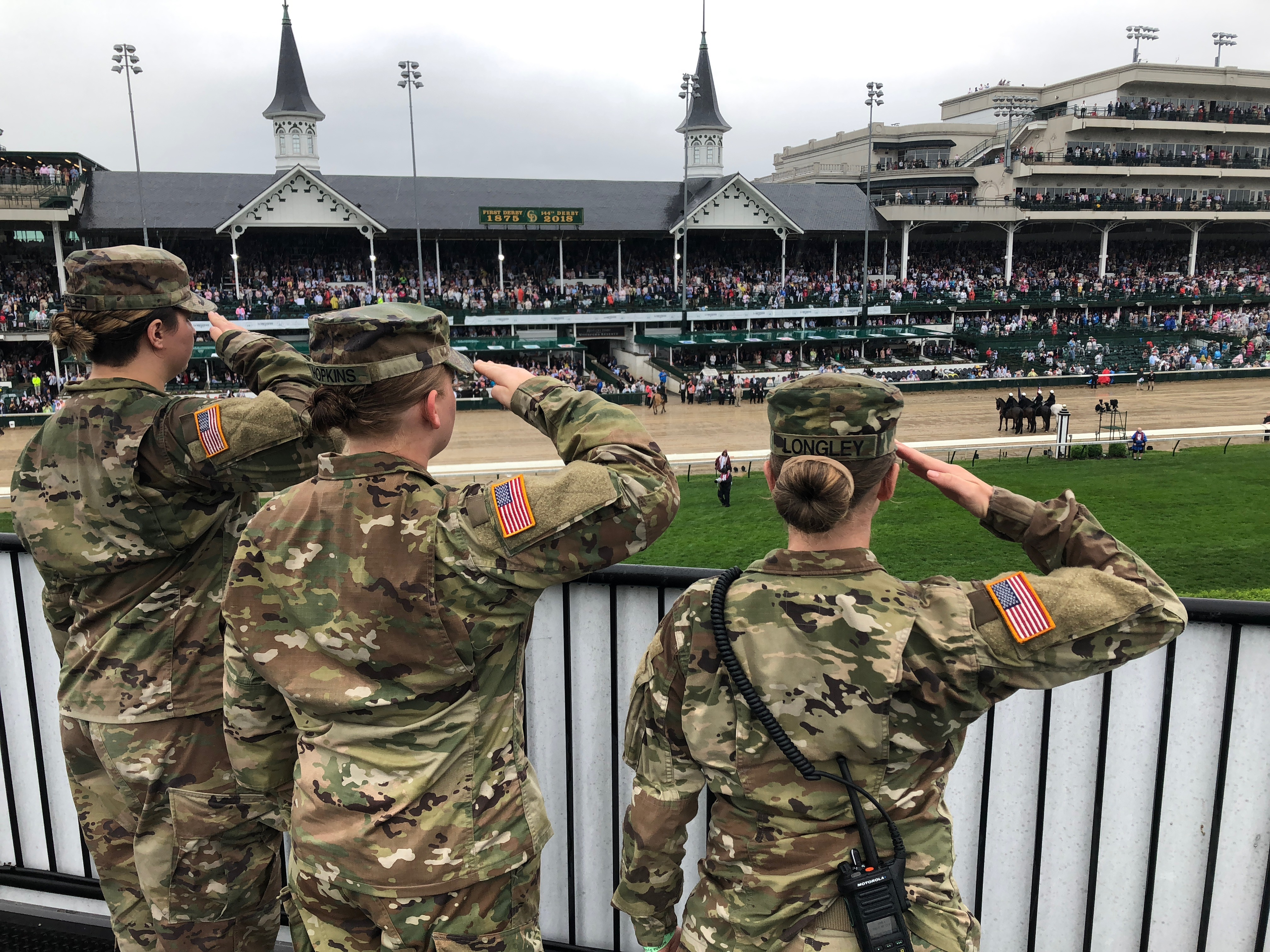 Soldiers with the Kentucky National Guard's 198th Military Police Battalion salute during the National Anthem prior to the running of the Kentucky Derby at Churchill Downs in Louisville, Ky., May 5, 2018. (U.S. Army National Guard photo by Sgt. 1st Class Scott Raymond)